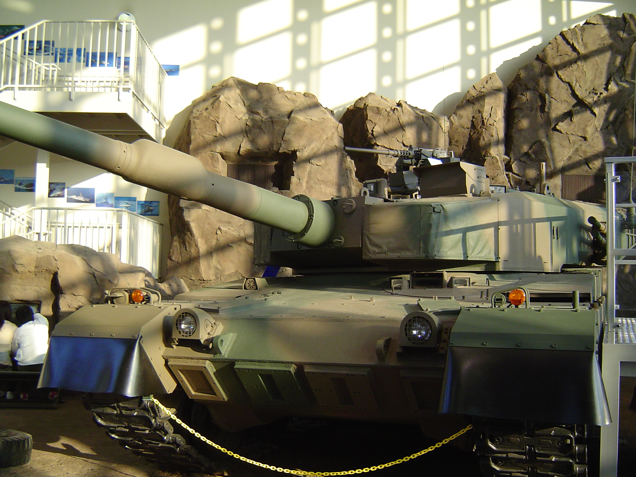 MBT Type 90 of JGSDF at JGSDF PI center. ja:90式戦車 Typ 90 (Japan) Type 90 he:Type 90 Mitsubishi Type 90 Mitsubishi Type 90 Type 90 Mitsubishi Tip 90 zh:90式戰車